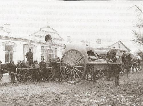 Arbakeshs of Djalal-abad 1918 on a local railroad station